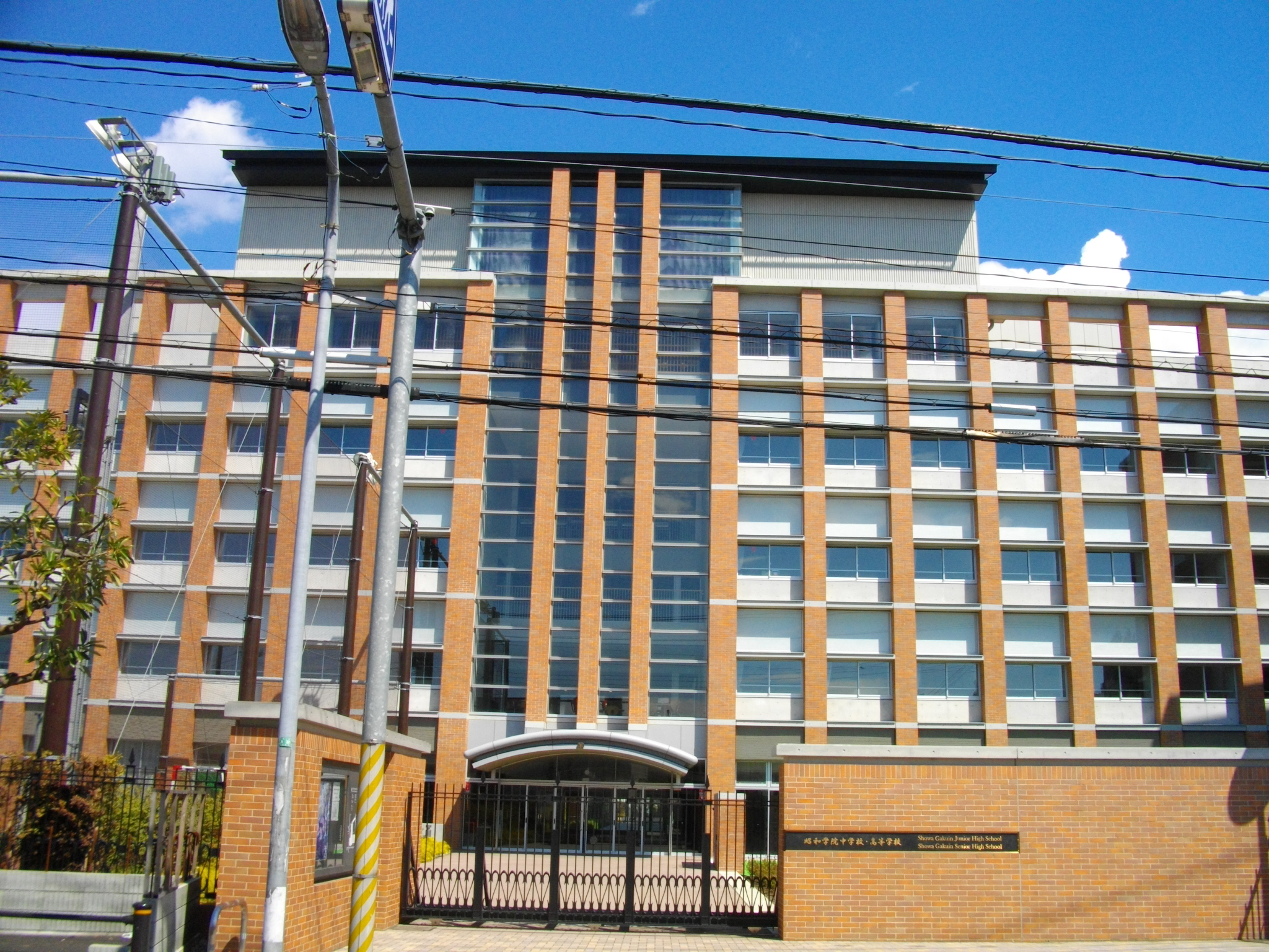 Showa Gakuin Junior & Senior High School